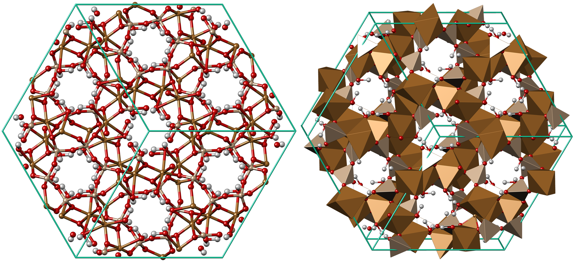 Crystal structure of dioptase - CuSiO3·H2O. Ribbe P H, Gibbs G V, Hamil M Copper, Cu: brown Hydrogen, H: white Silicon, Si: sand Oxygen, O: red Cell: blue-green